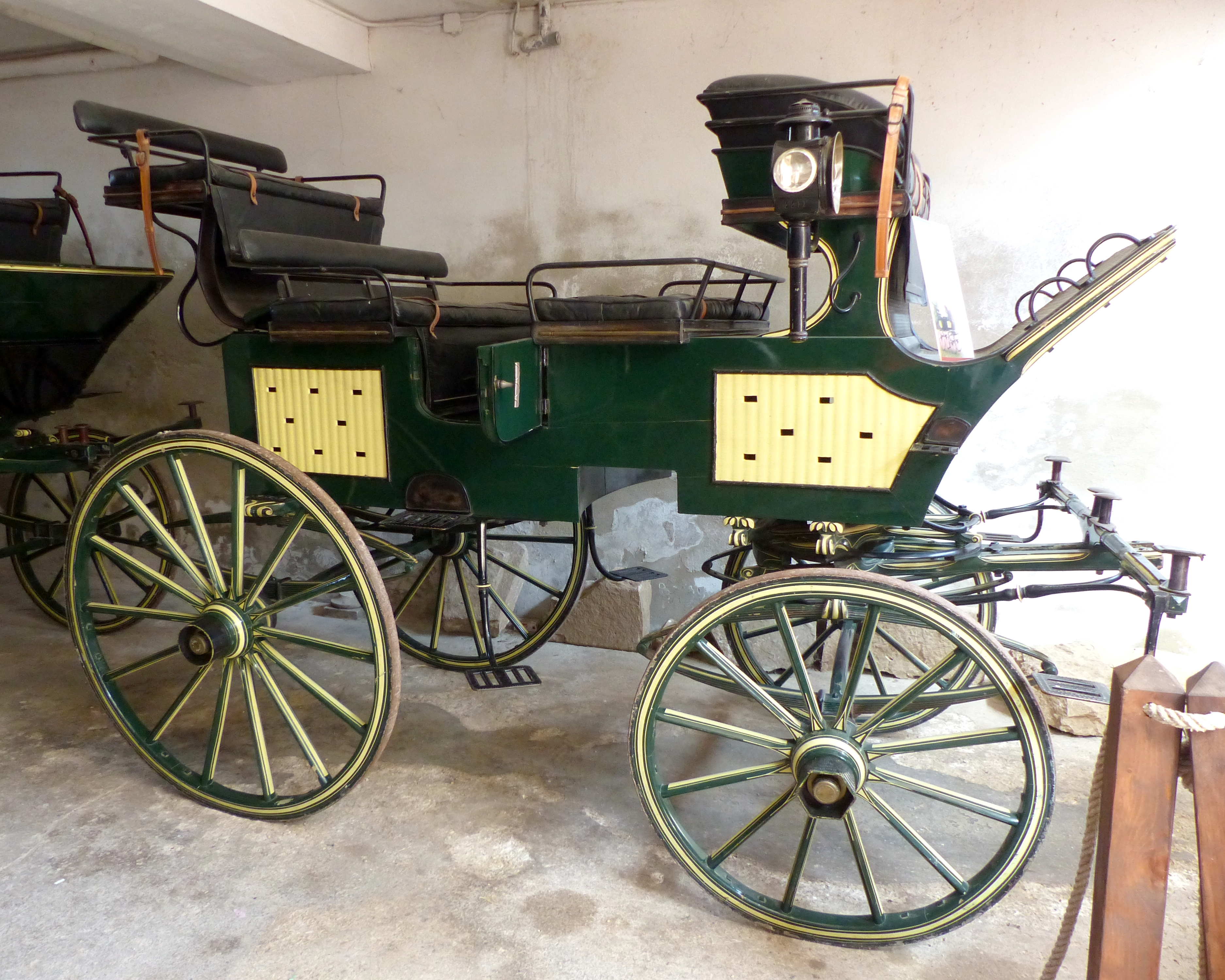 Saint-Gilles (Gard, Occitania, France), domain of Espeyran, one of the five remaining horse-drawn carriages that belonged to the Sabatier family of Espeyran: large model wagon carriage called hunting break.